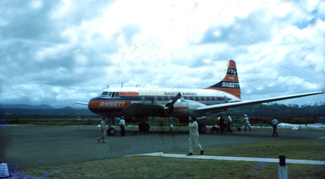 Ansett plane on the tarmac at Coolangatta Airport, Queensland, 1955 Ray Sharpe Gold Coast City Council library